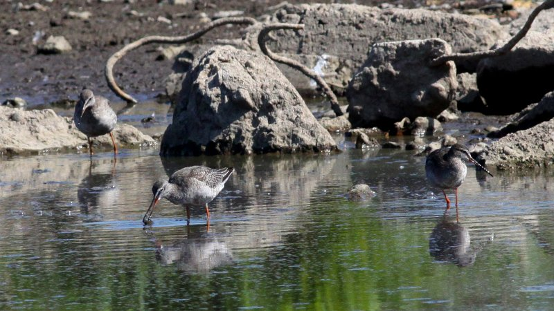 Spotted Redshank (Tringa erythropus)